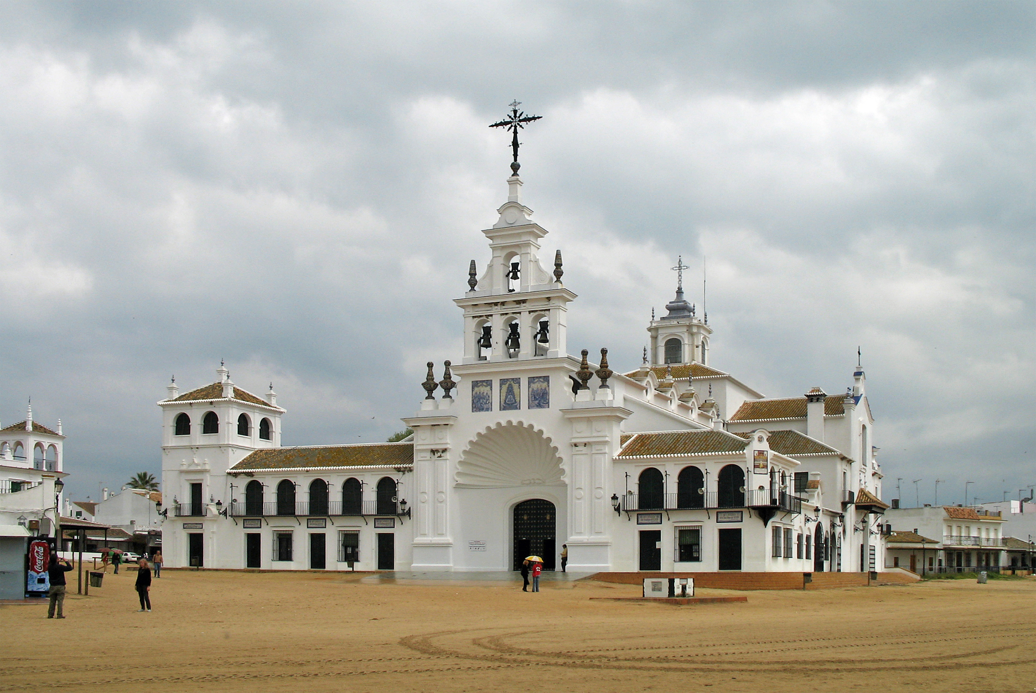 El Rocío (municipality of Almonte, province of Huelva, Andalusia, Spain): church of Our Lady of El Rocío (Santuario de la Virgen del Rocío)